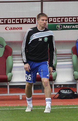 Viktor Stroev